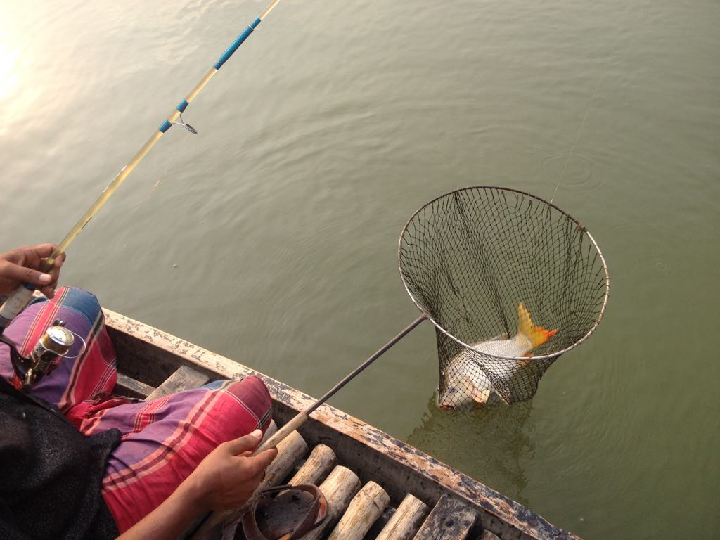 During the fishing